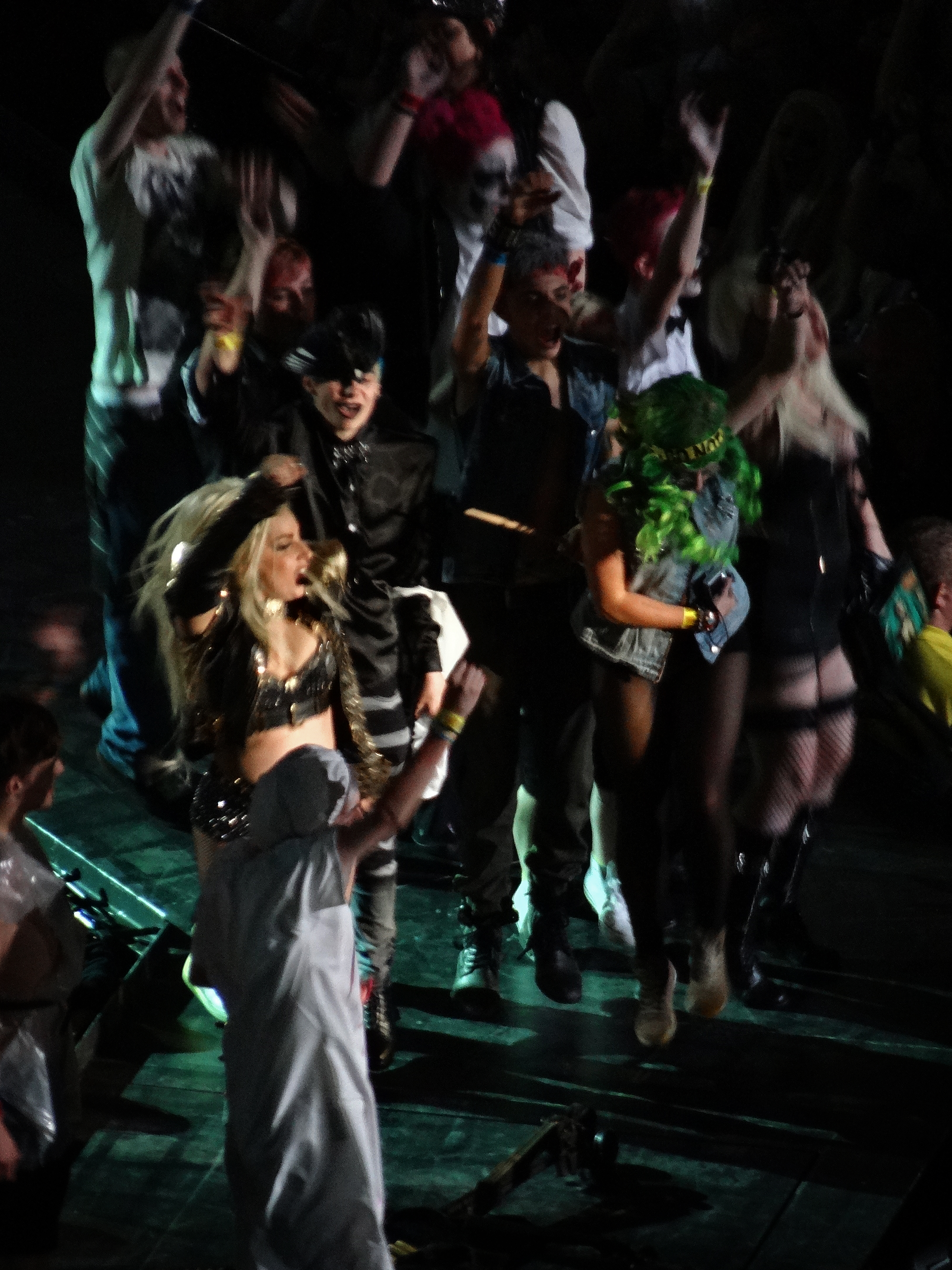 Lady Gaga performing "Marry the Night" on The Born This Way Ball Tour.